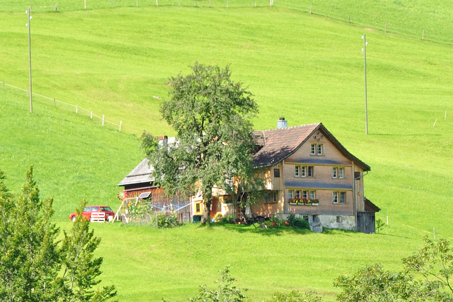 Switzerland, Canton of St. Gallen, hike along the river Thur